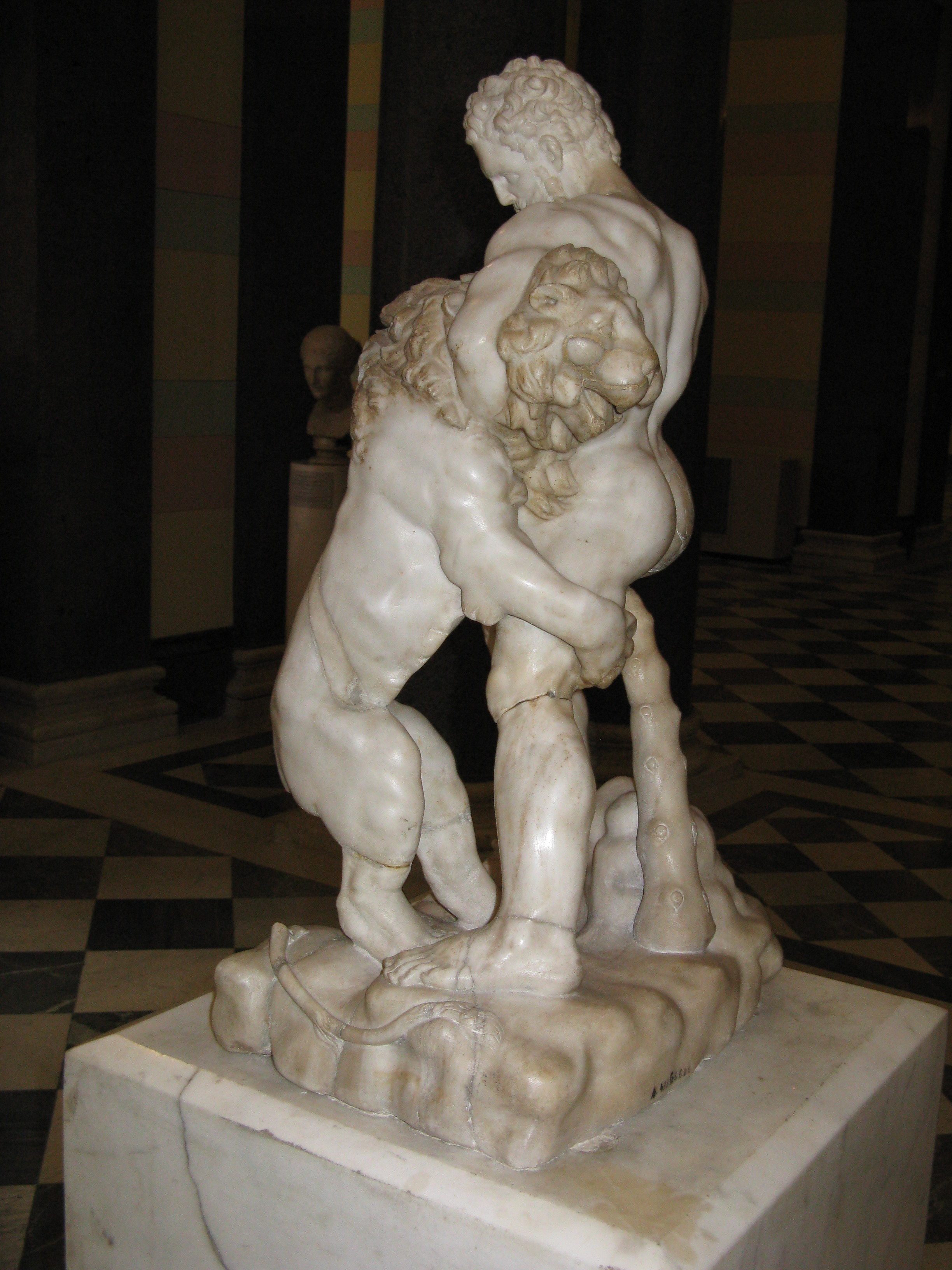 Heracles Slaying the Lion of Nemea at the Hermitage. 1st-2nd century Roman copy of Lysippus' original.